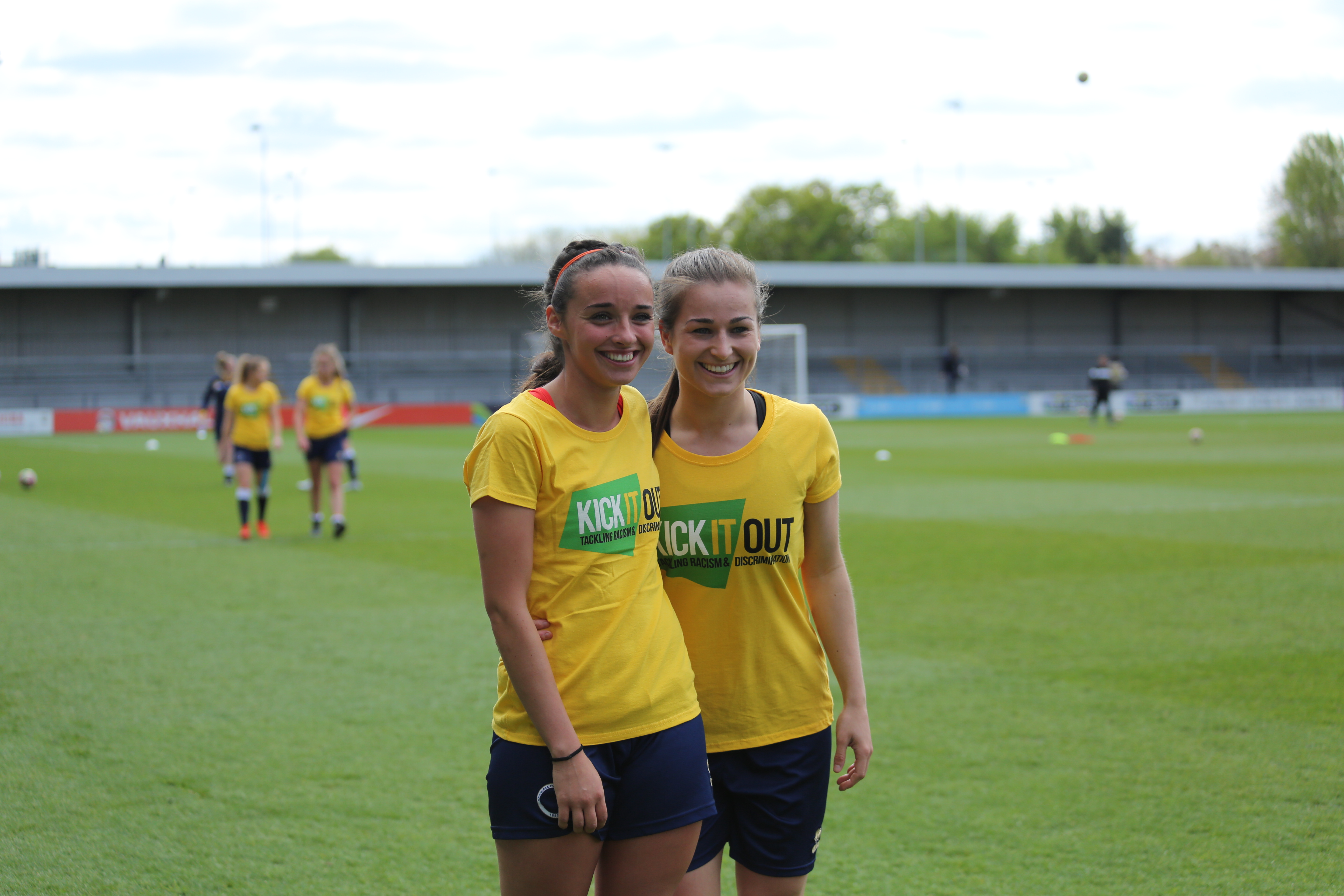 London Bees v Millwall Lionesses, 15 April 2017